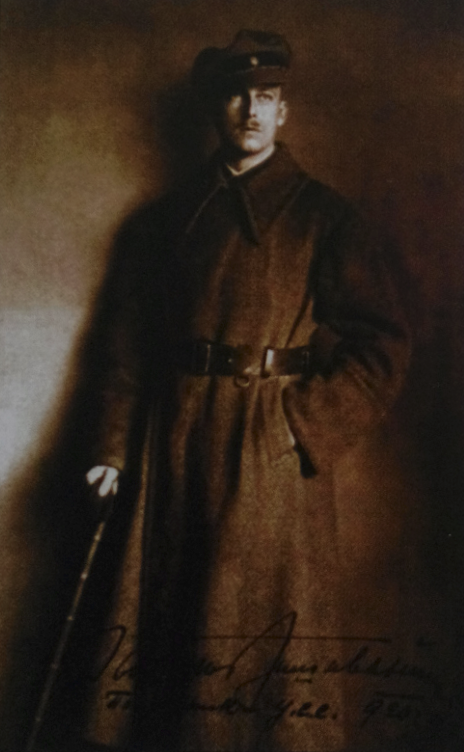 Archduke Wilhelm Franz of Austria